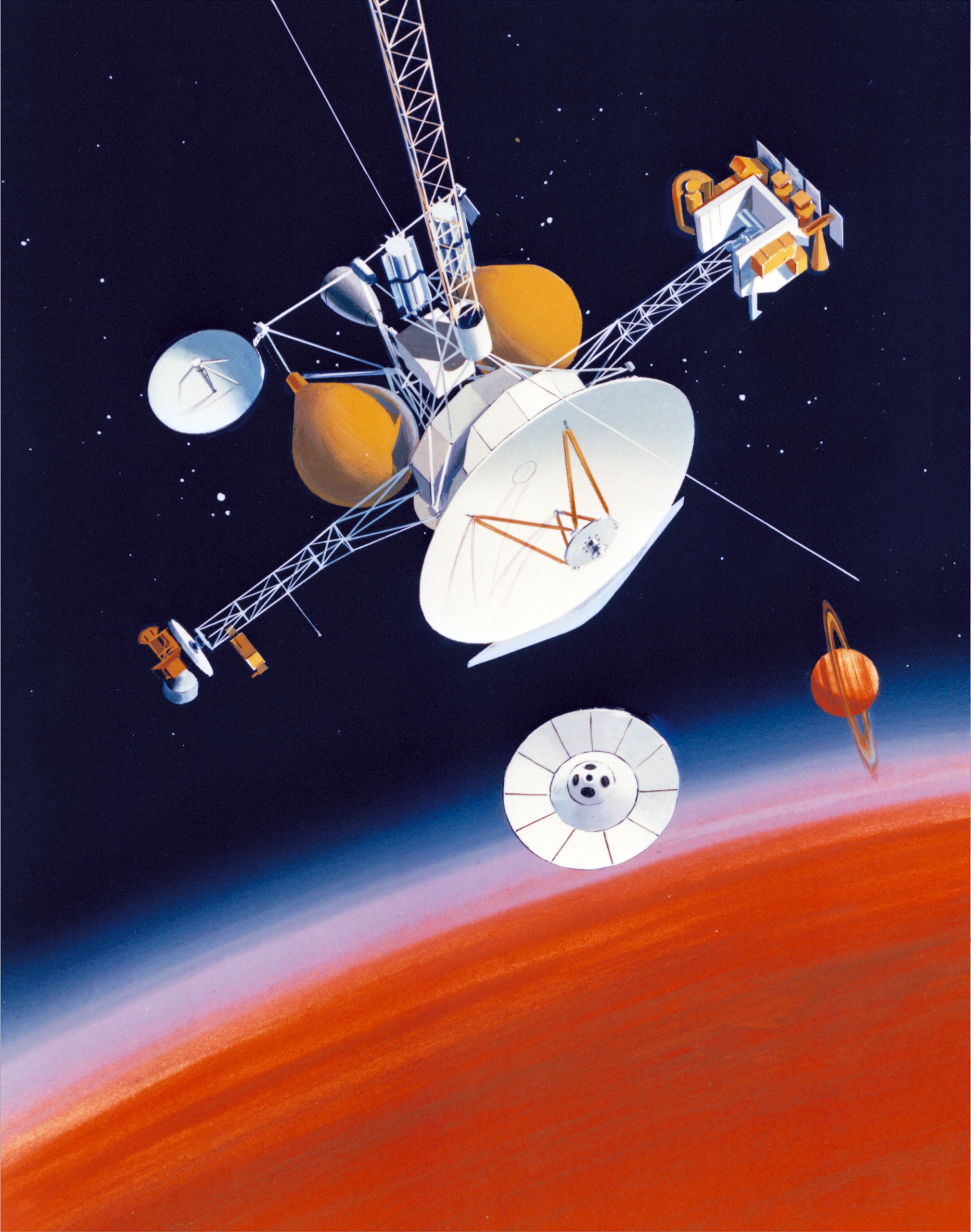 Cassini-Huygens planning status in 1988. Called at that time “Saturn Orbiter /Titan Probe (SOTP)”. Orginal caption released with the picture: Photograph Art by JPL Cassini Mission Artwork: Saturn Orbitor and Titan Probe Spacecraft (ref: P-33300)